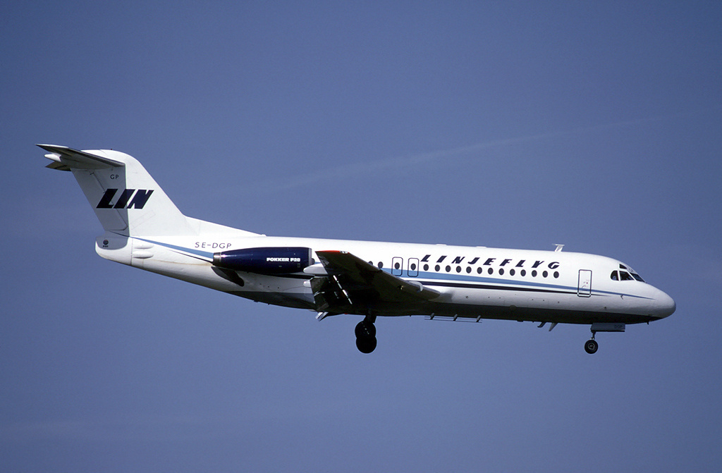 A Linjeflyg Fokker F-28-4000 Fellowship at Zurich International Airport, Switzerland